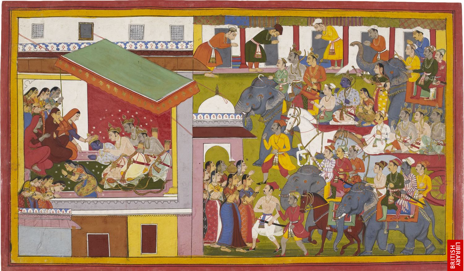 "Making use of Ravana's flying chariot, the exiles have left Lanka and flown swiftly northwards, the directional imperative now being from right to left. Reunited with Bharata and Satrughna, who have kept Rama's kingdom for him during the fourteen years of exile, they enter Ayodhya in triumph. They drive through the bazaars with their festive hangings to the palace where they are received by their mothers. Even Kaikeyi is forgiven. The monkey king Sugriva, his minister Hanuman and the other chief monkeys have assumed human form."